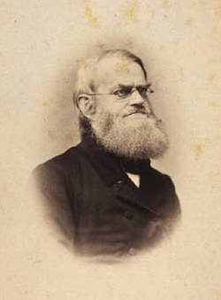 Carl Emil Mundt (1802-1873), Danish mathematician and politician, MP